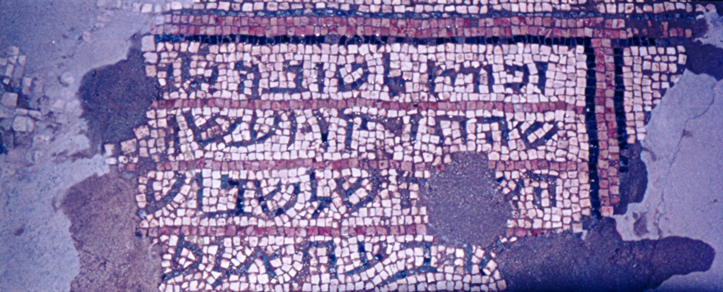 Old Synagogue Eshtemoa